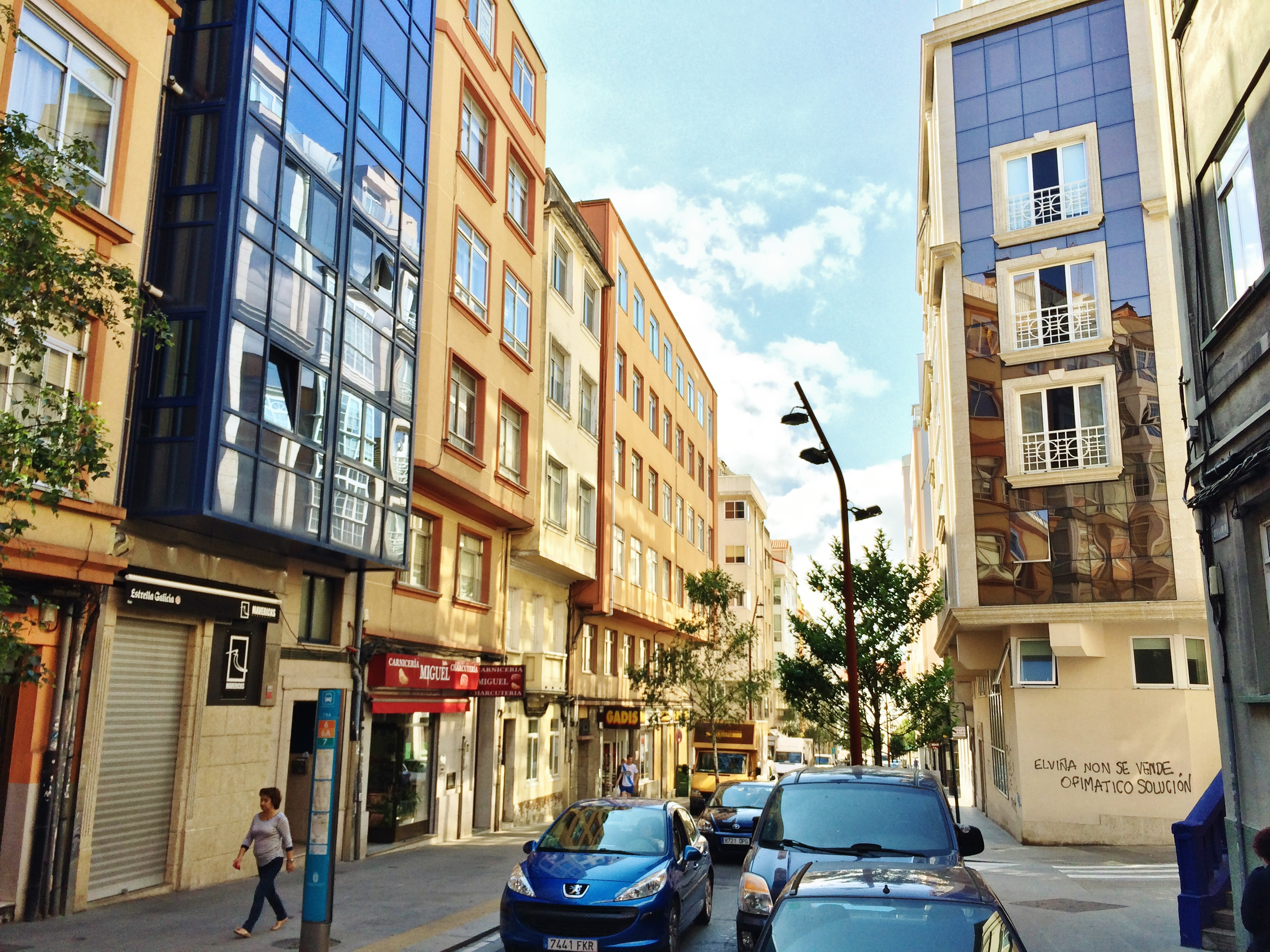 One of the streets in Monte Alto, A Coruña